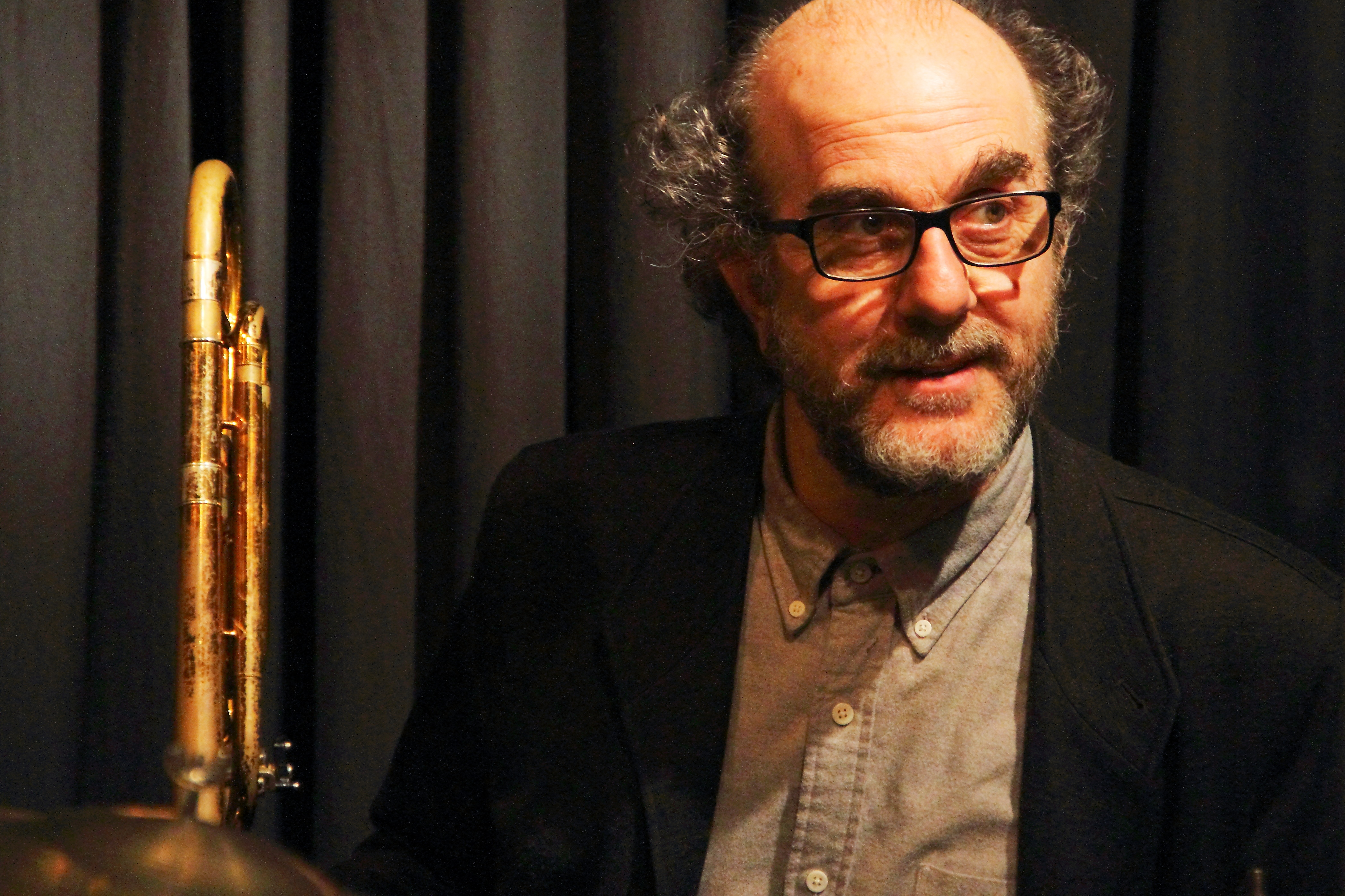 Quintet Moderne at Club W71, Weikersheim. Quintet Moderne are Teppo Hauta-Aho (db), Paul Lovens (dr), Harry Sjöström (sax), Sebi Tramontana (tb) und Phil Wachsmann (violin).